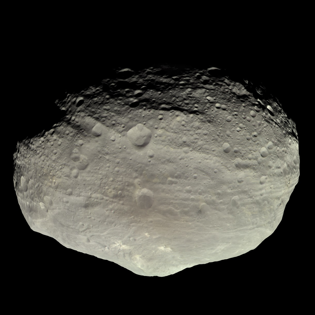 Vesta is a colorful world; craters of a variety of ages make splashes of lighter and darker brown against its surface. This photo was processed from data acquired on July 24, 2011, from a distance of about 5200 kilometers, during the third "rotation characterization" observation by Dawn.